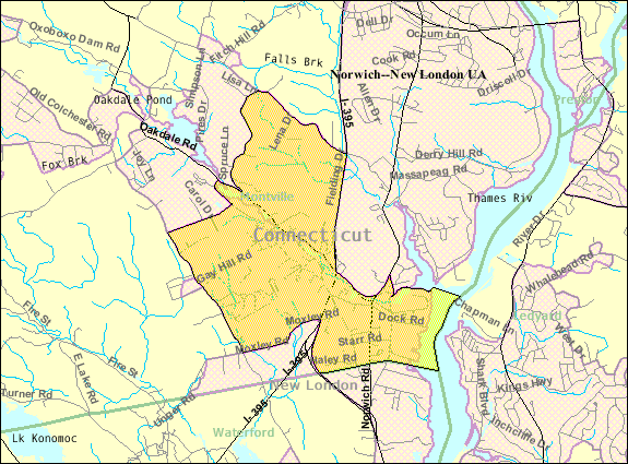 Census Bureau TIGER map of the Oxoboxo River Census-Designated Place (CDP) in Montville, Connecticut.